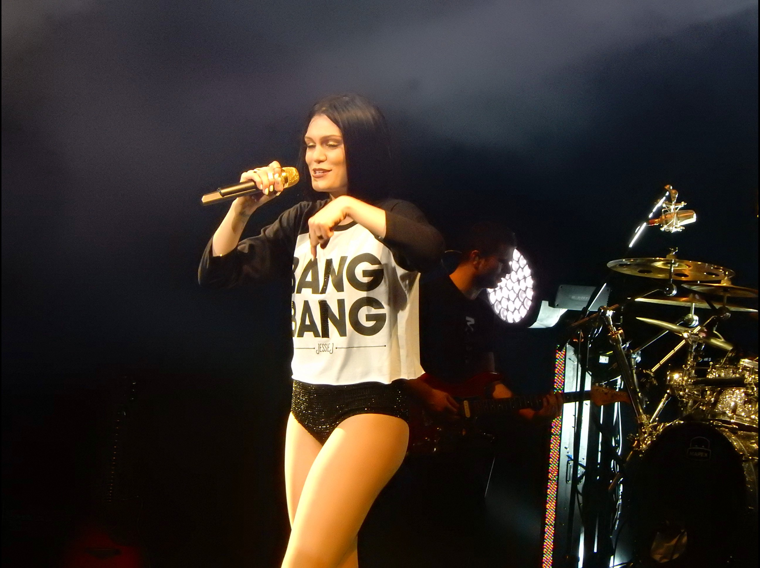 Jessie J, Brixton Academy, London